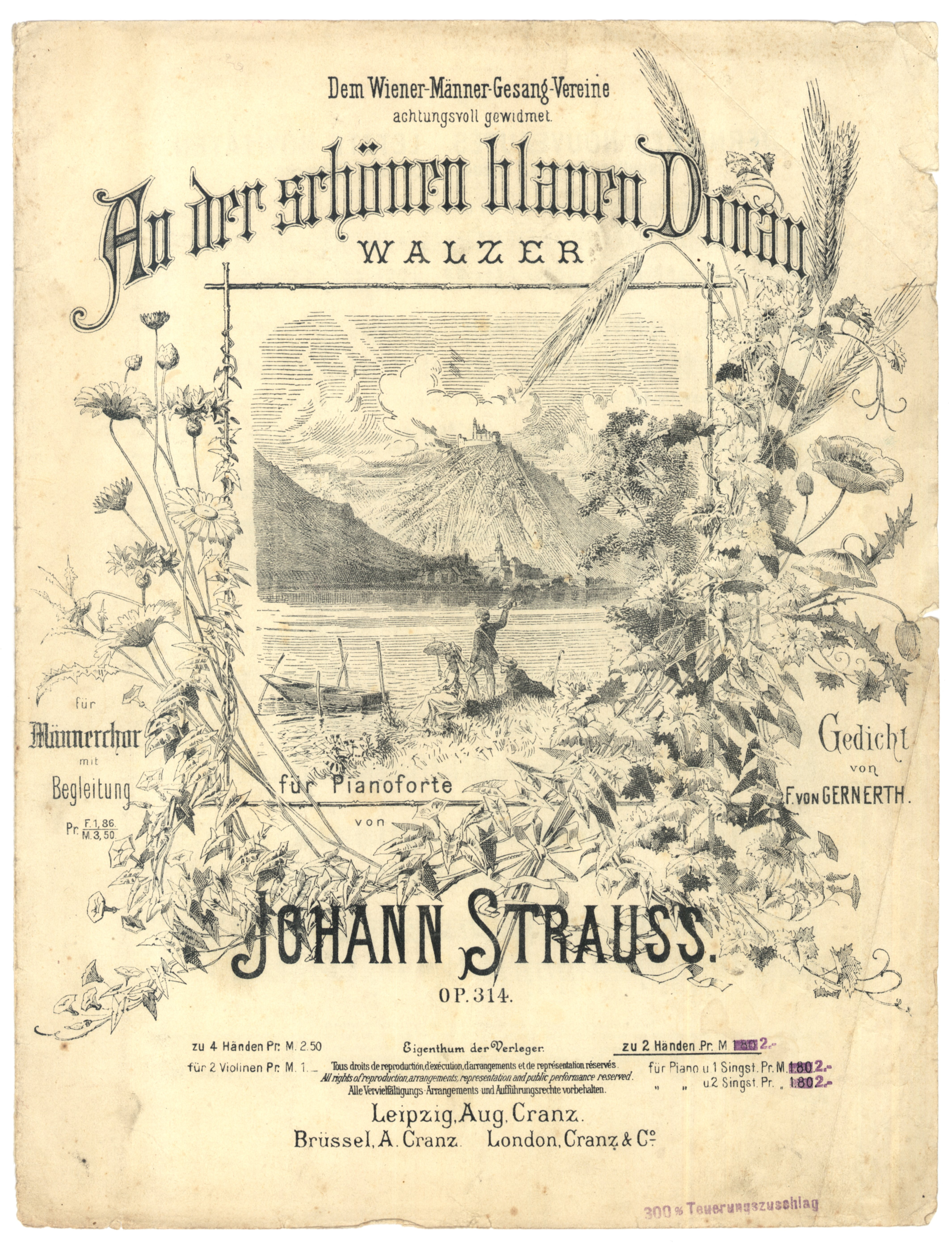 Johann Strauss II. The Blue Danube, ed. with the words of F. v. Gernerth by August Cranz